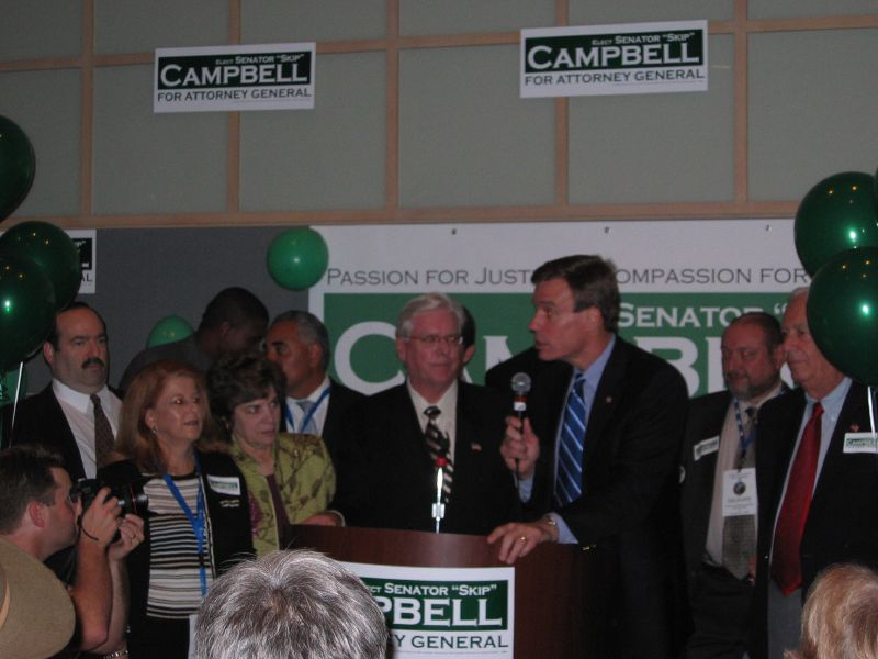 At the '05 FDP convention.